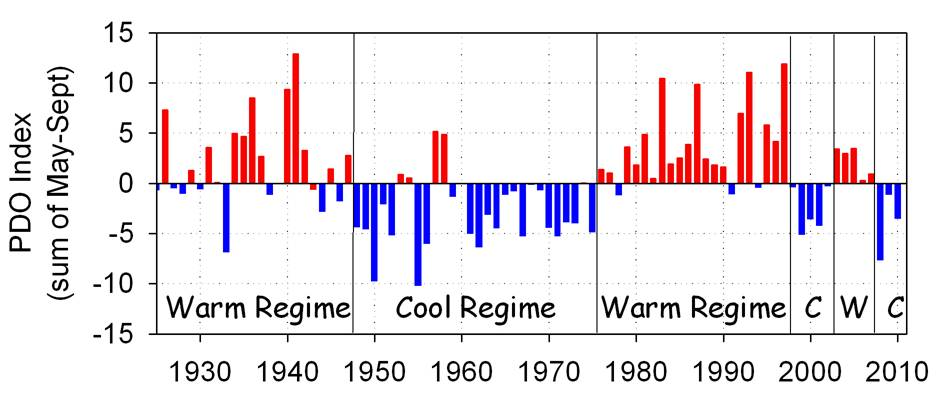 Pacific Decadal Oscillation (PDO), from 1925 to 2010